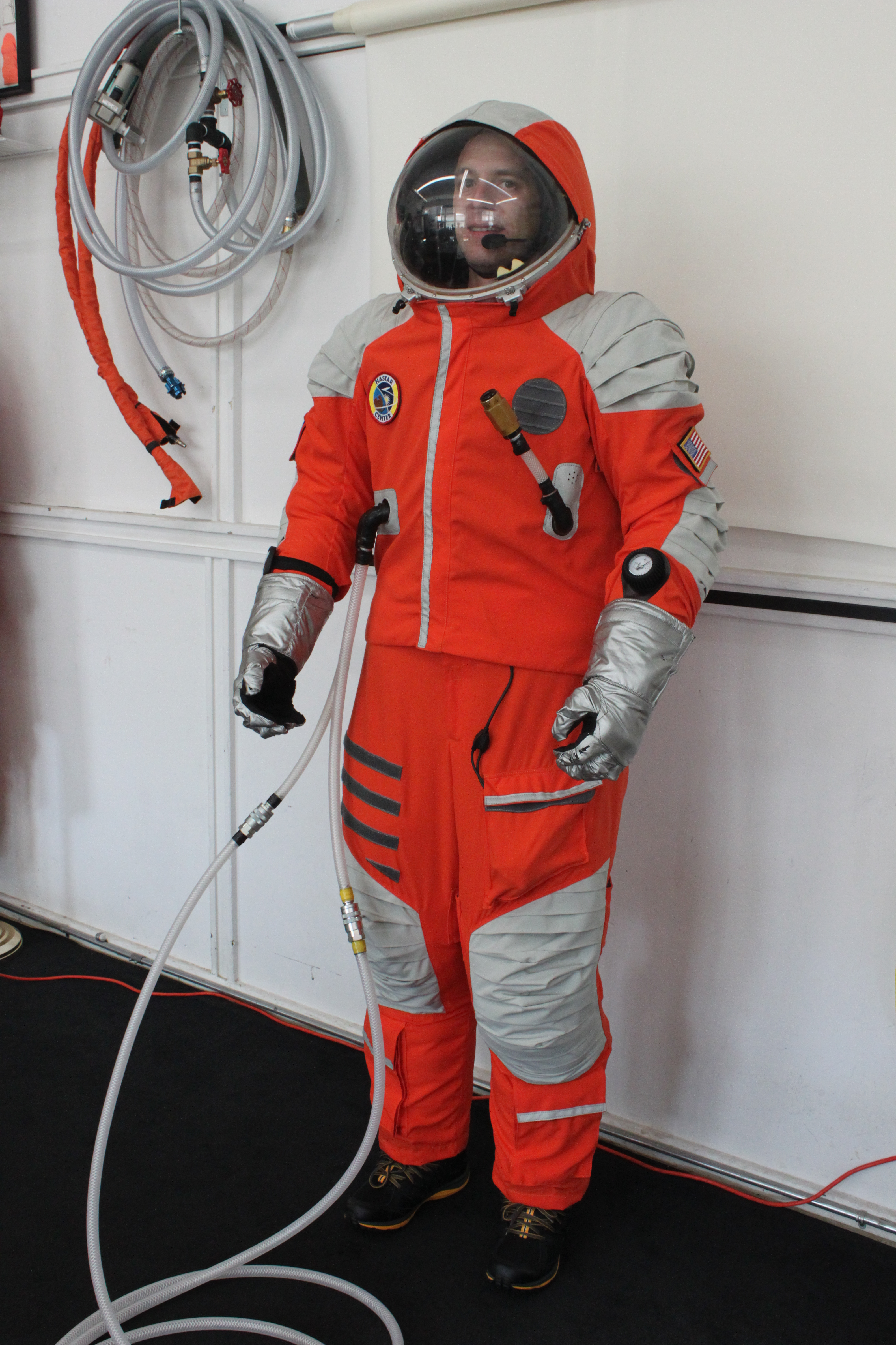 Final Frontier Design IVA Space Suit